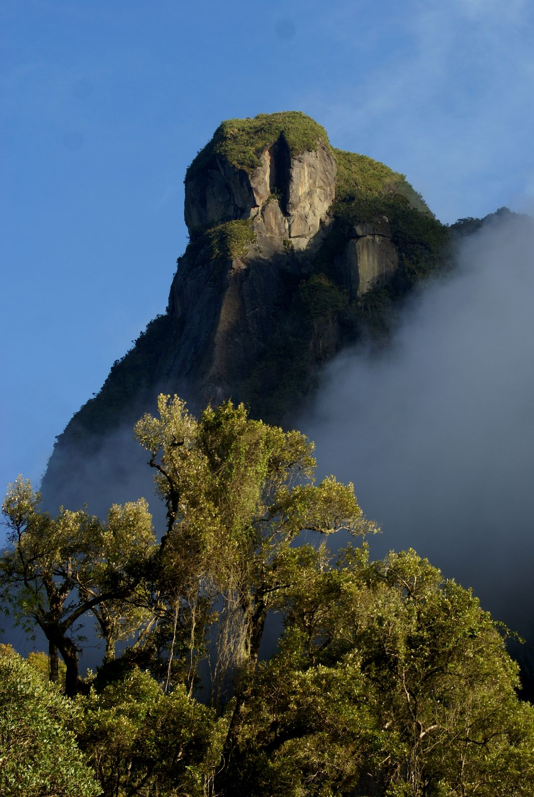 Ambatotsondrona - The leaning rock - Camp Marojejia - Marojejy National Park - Madagascar